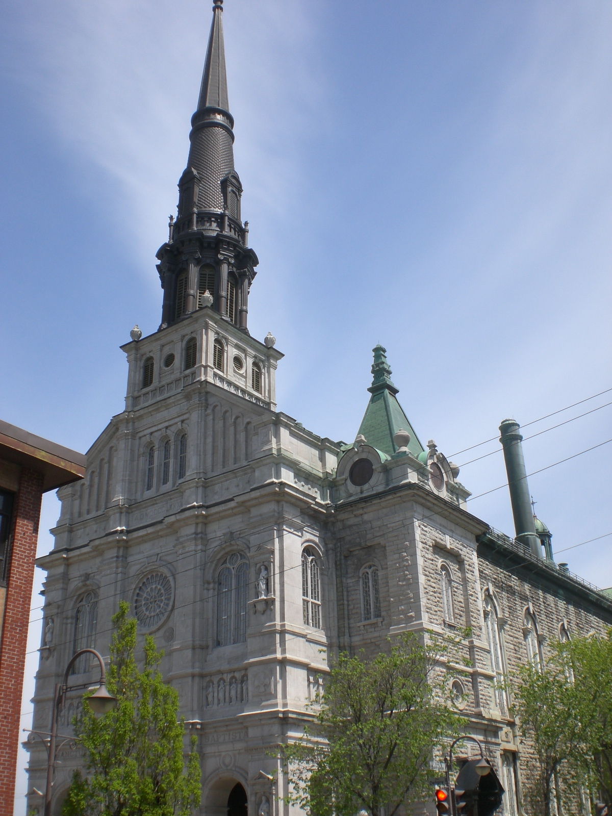 Photo of the front entrance of Saint Jean Baptiste Church, Quebec City